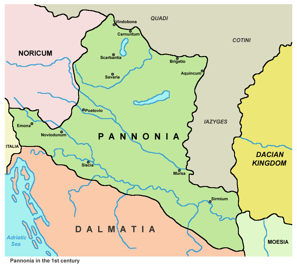 Historic map - Roman Pannonia in the 1st century.